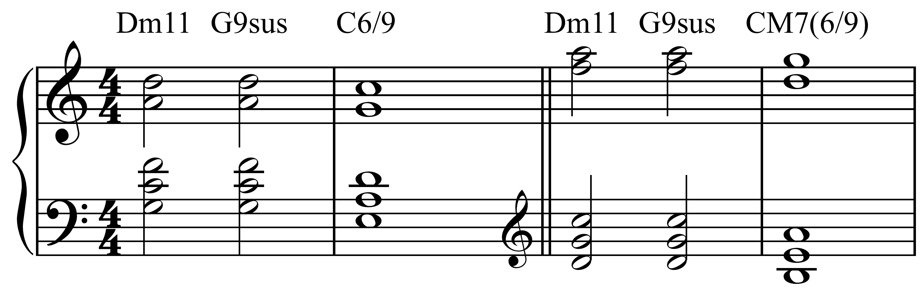 ii-V-I turnaround with fourth voicings: all chords are in fourth voicings. Created by Hyacinth (talk) 03:33, 18 March 2010 using Sibelius 5.